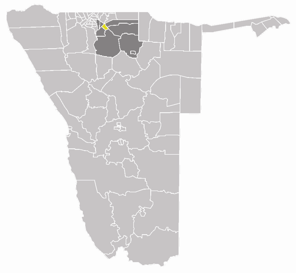 map of the Onyaanya constituency within the Oshikoto region, Namibia